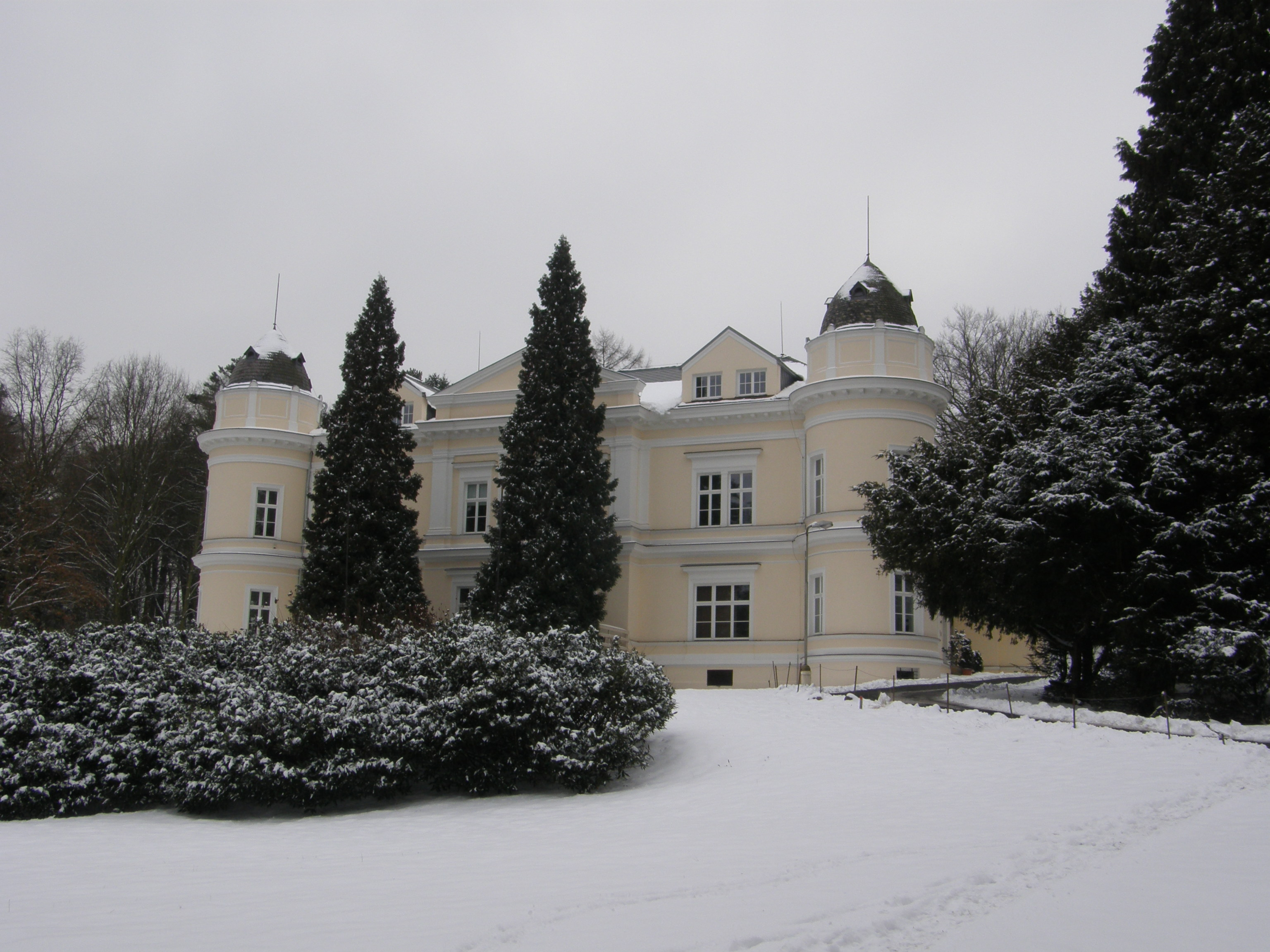 New castle in Dalovice (Karlovy Vary district)